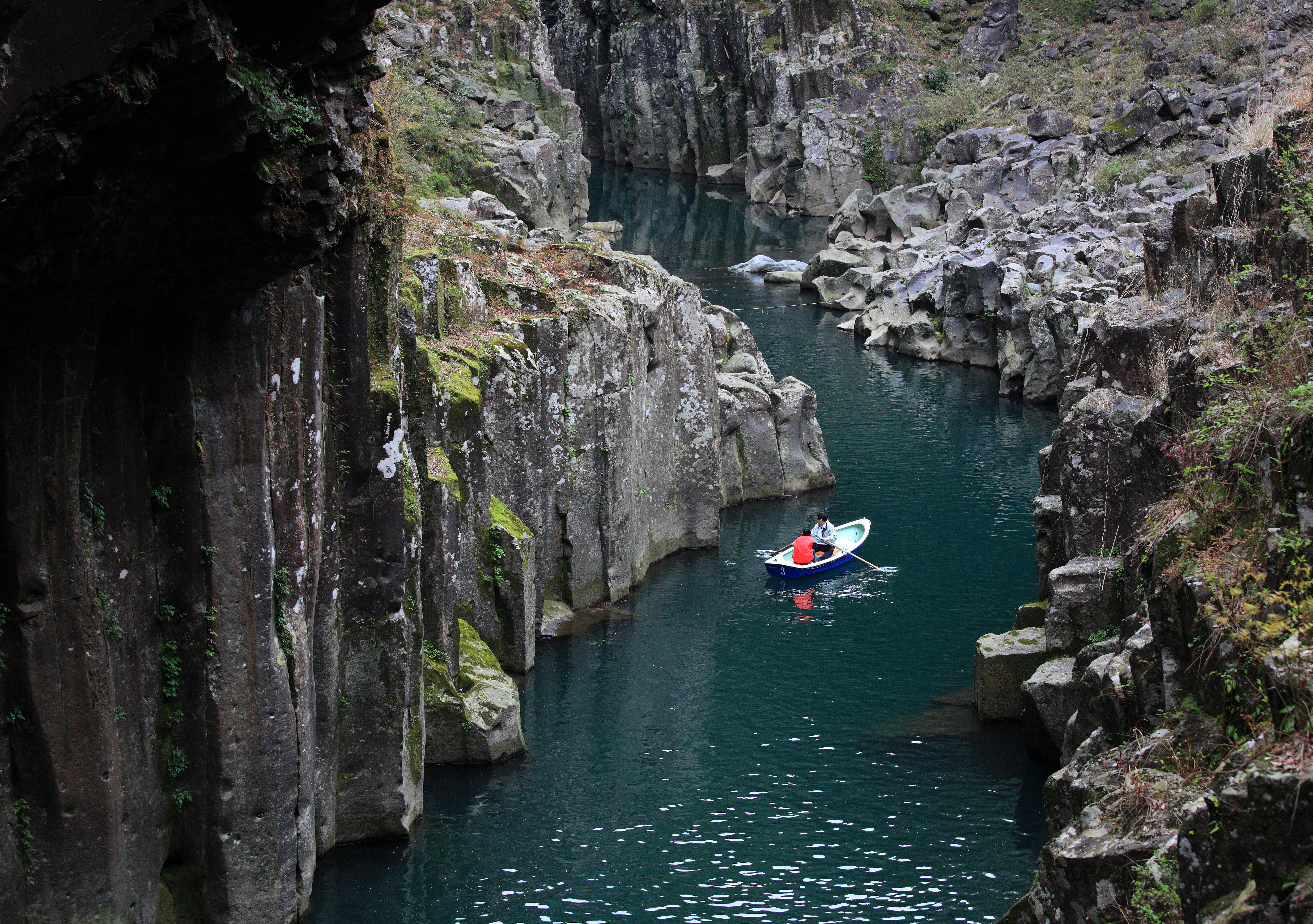 Takachiho-kyo(Gorge), Nishi-Usuki-gun(County) Miyazaki-ken(Prefecture), Japan